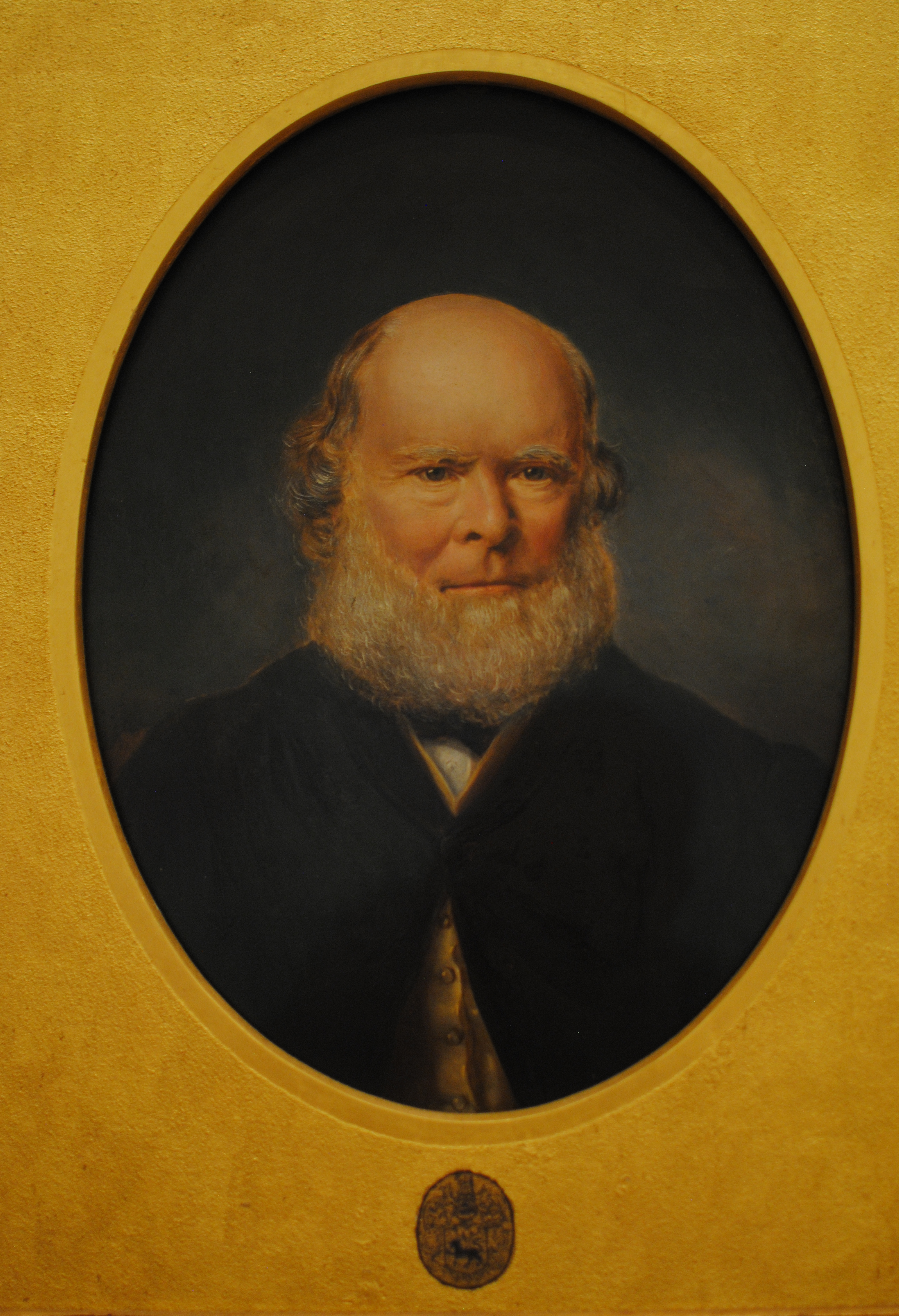 Portrait of Alfred James Lutwyche by unknown painter. In the collection of Queensland Art Gallery, Brisbane.